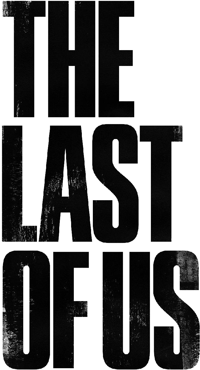 Logo of the video game The Last of Us by Naughty Dog